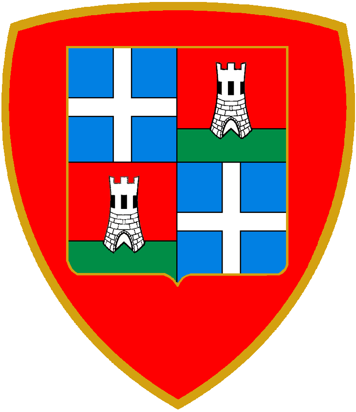 Coat of Arms of the Italian Army Mechanized Brigade Sassari